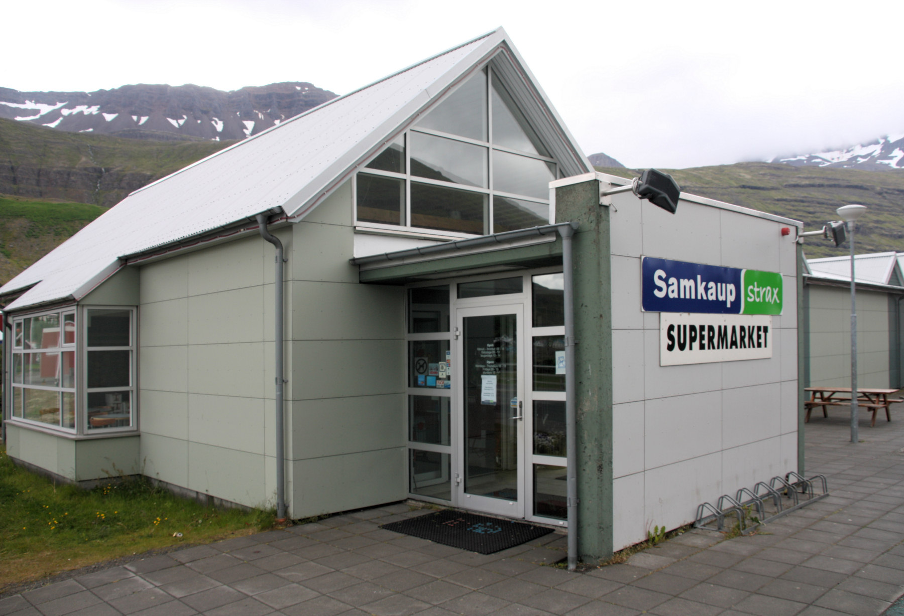 Samkaup Strax supermarket in Seydisfjordur (Seyðisfjörður), Iceland.